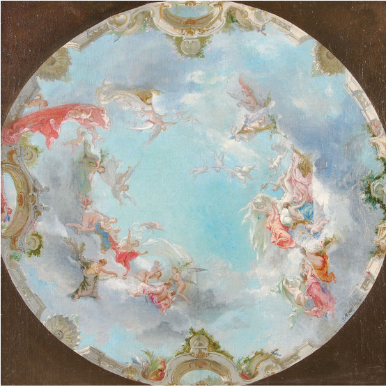 Allegorical ceiling design. Oil on canvas. Signed and dated 1862 lower left. 66 x 65cm (26 x 25 3/4 in)